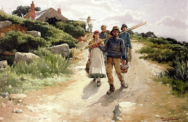 Lamorna Cove - Cornwall